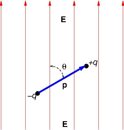 Electric dipole in external field